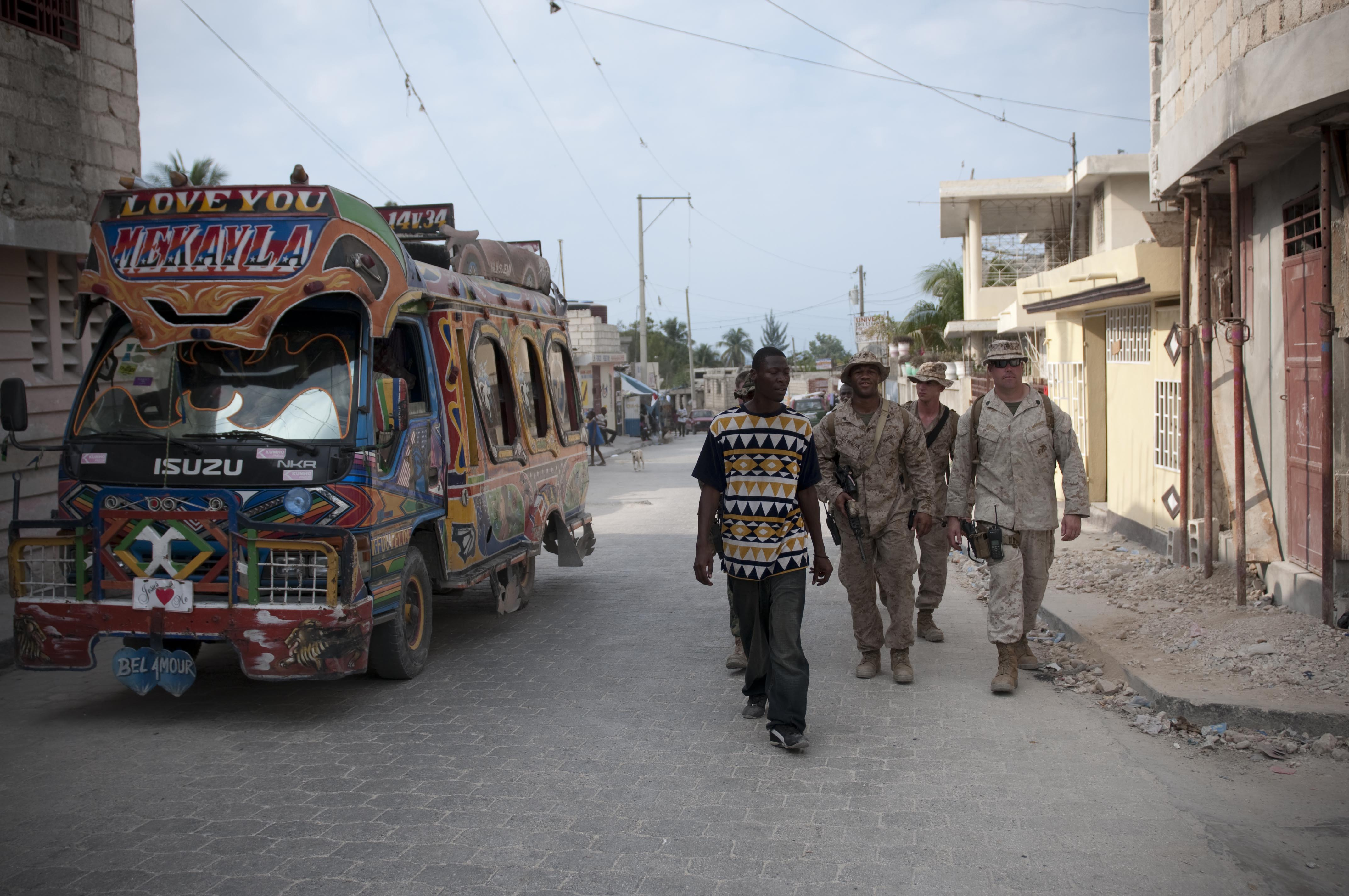 CARREFOUR, Haiti (Feb. 6, 2010) Marines from the 24th Marine Expeditionary Unit (24th MEU) patrol Carrefour, Haiti with Peterson Lezin, a Haitian citizen and Creole-to-English interpreter. The patrol marks the locations in need of supplies, ensures supplies are utilized appropriately, and provides security for local citizens. The 24th MEU is embarked with the Nassau Amphibious Ready Group supportin Operation unified Response. (U.S. Navy photo by Mass Communication Specialist Seaman Jonathan Pankau/Released)